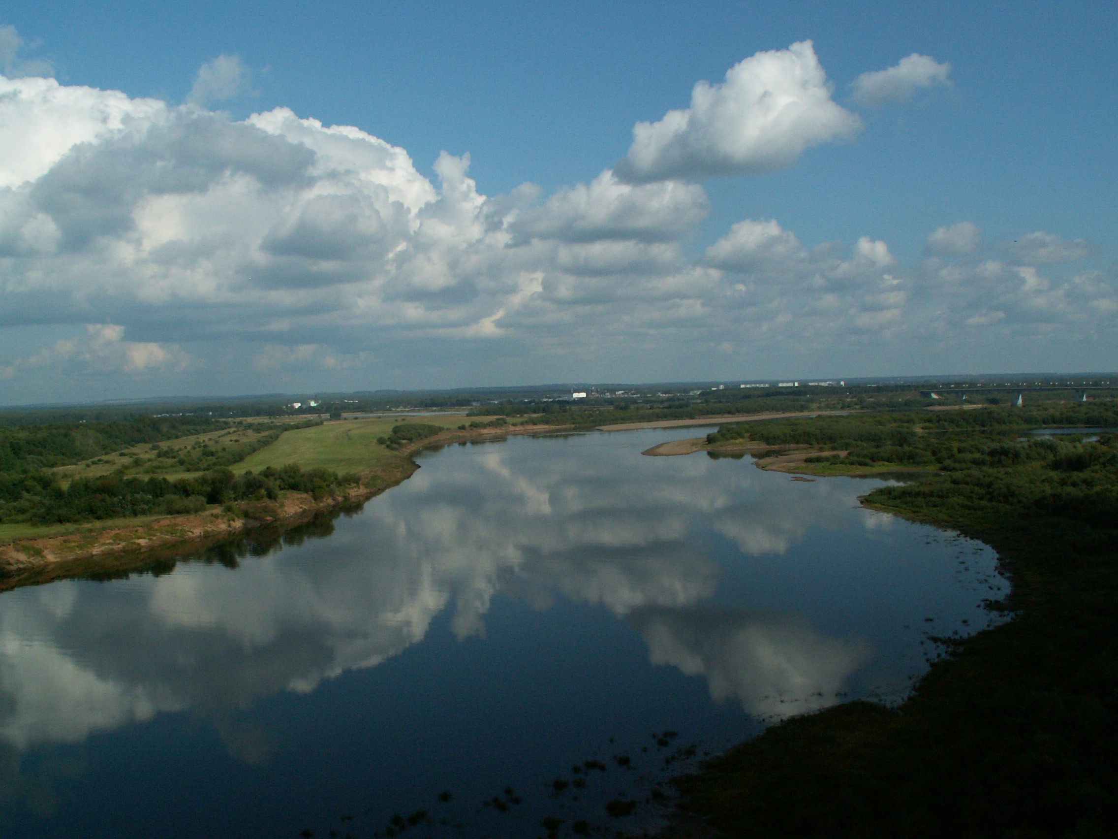 River Vyatka in surroundings of city Kirov. View from Malaya gora